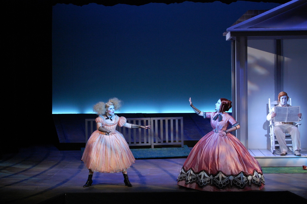 "Third Telling", a scene from David Lang and Mac Wellman's opera "The Difficulty of Crossing a Field", directed by Luke Leonard, produced by The University of Texas at Austin, 2010.